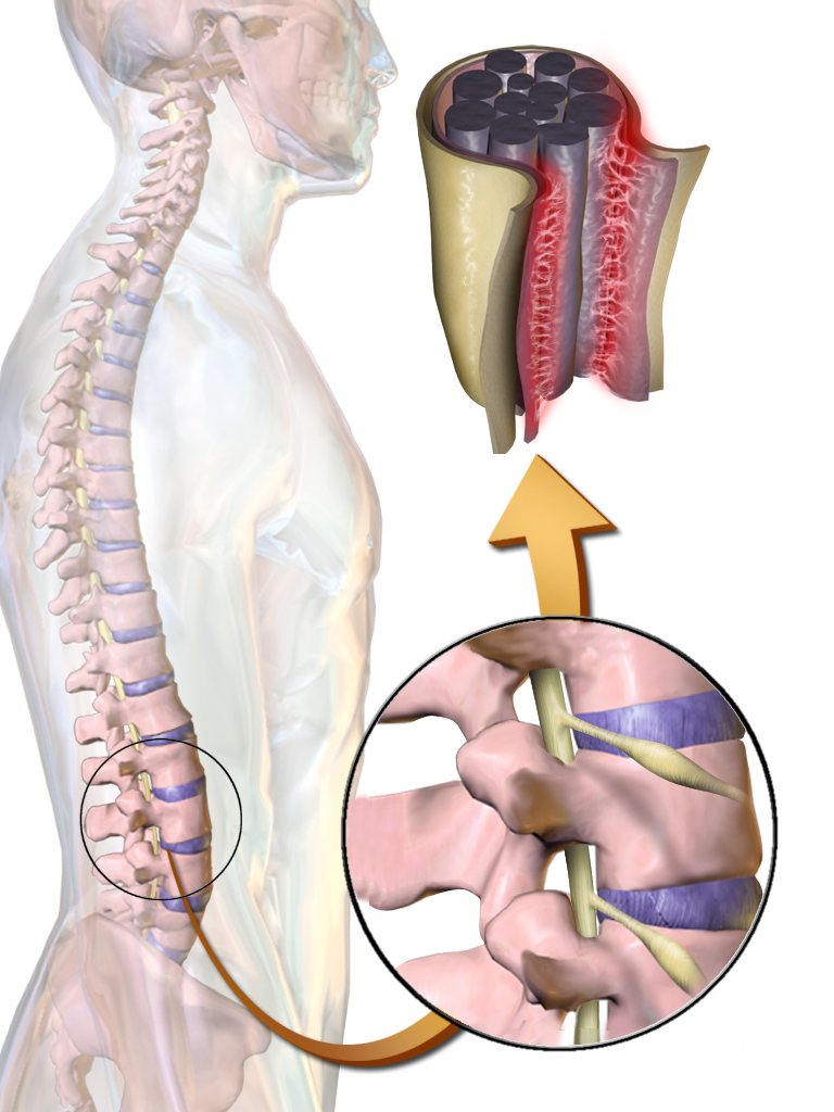 Arachnoiditis. This image was donated by Blausen Medical. Please visit our website to see more medical illustrations and animations.